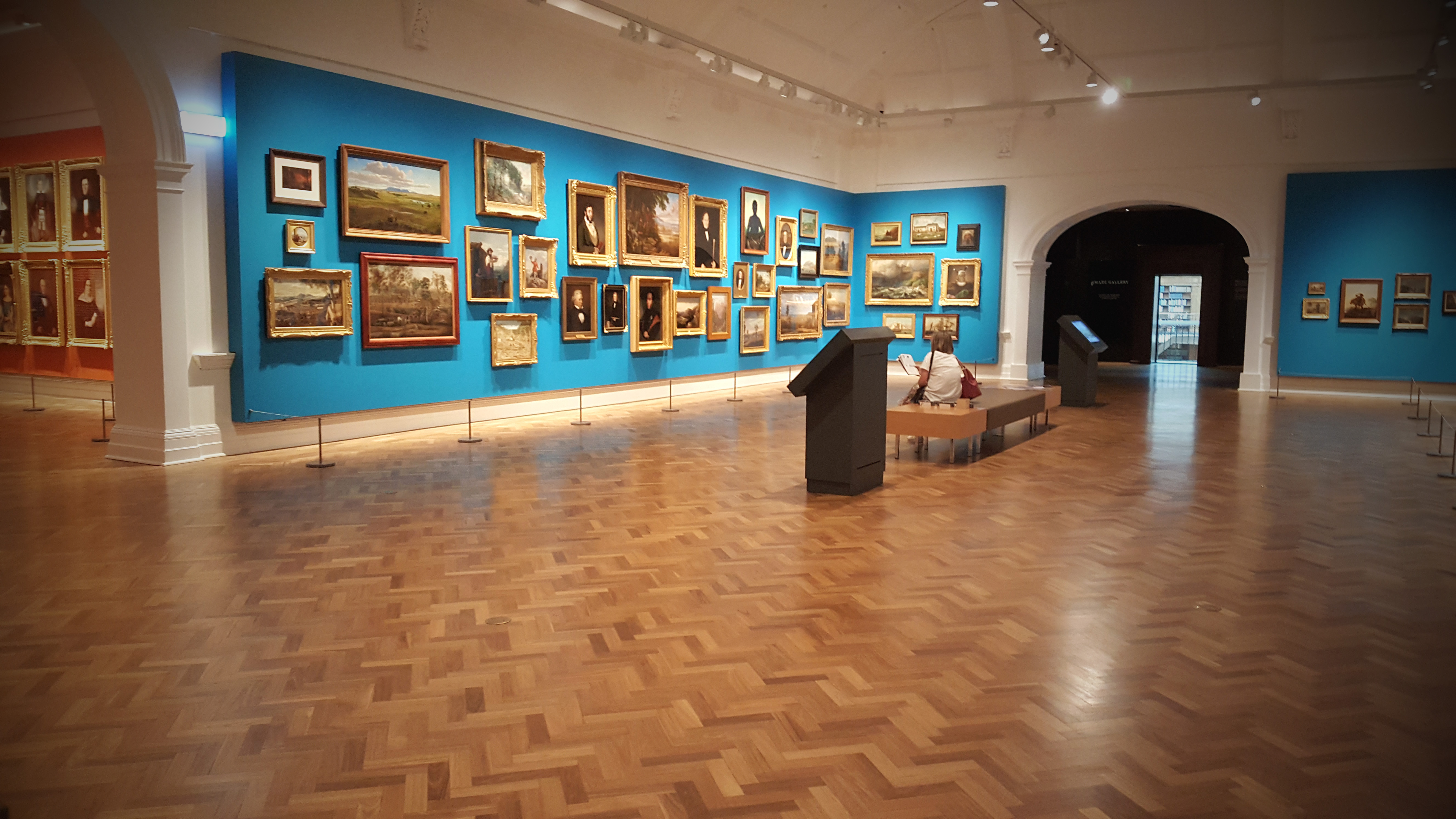 Gallery Room, Mitchell Galleries, State Library, Sydney, photographed by G Barker, 2019